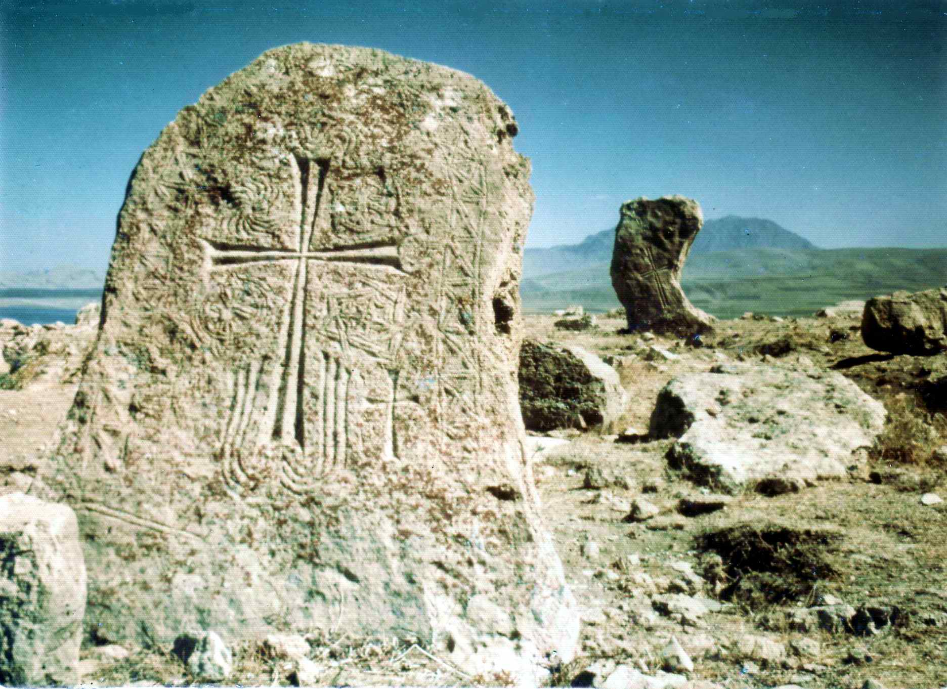 Armenian gravestones. Lake Van. I took this photo myself in 1973. John Hill 01:54, 28 August 2007 (UTC)